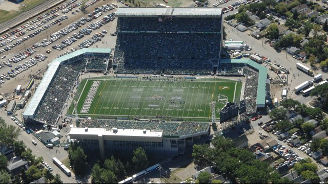 Mosaic Stadium at Taylor Field current configuration.